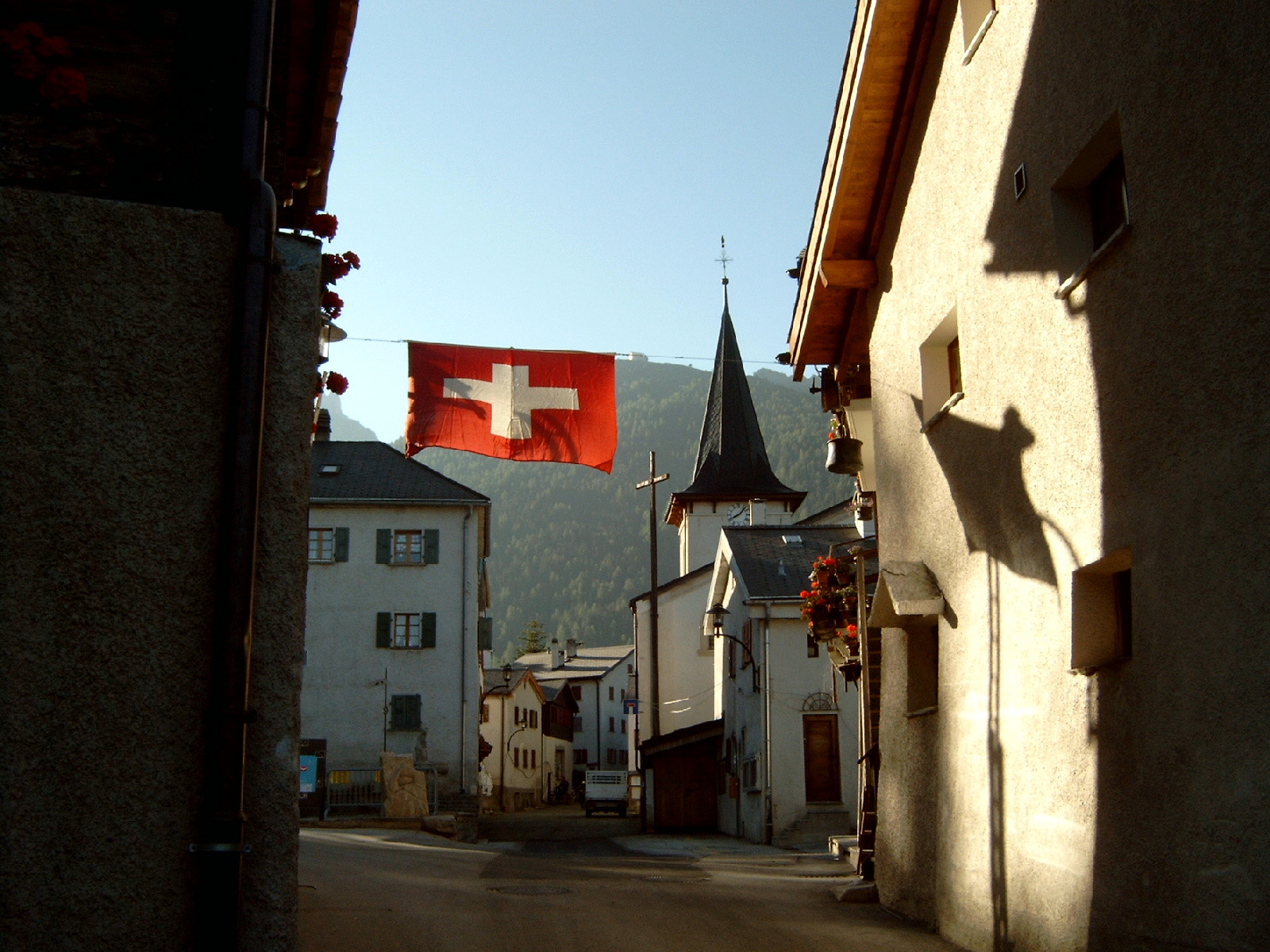 Saint-Luc, Switzerland